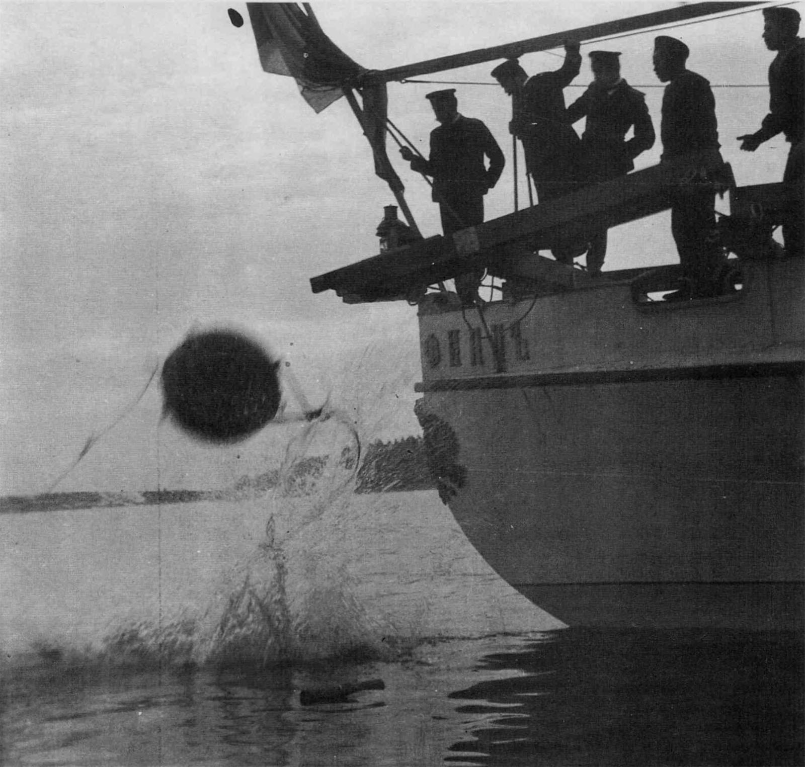 Imperial Russian destroyer Finn laying a mine.